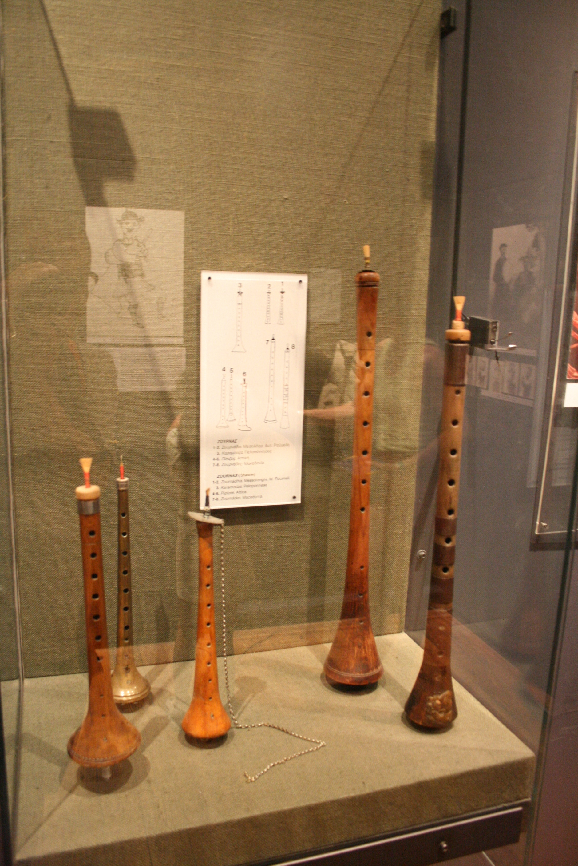 Different types of zurna (zourna) from Greece in the Museum of Greek Traditional Music Instruments in Athens